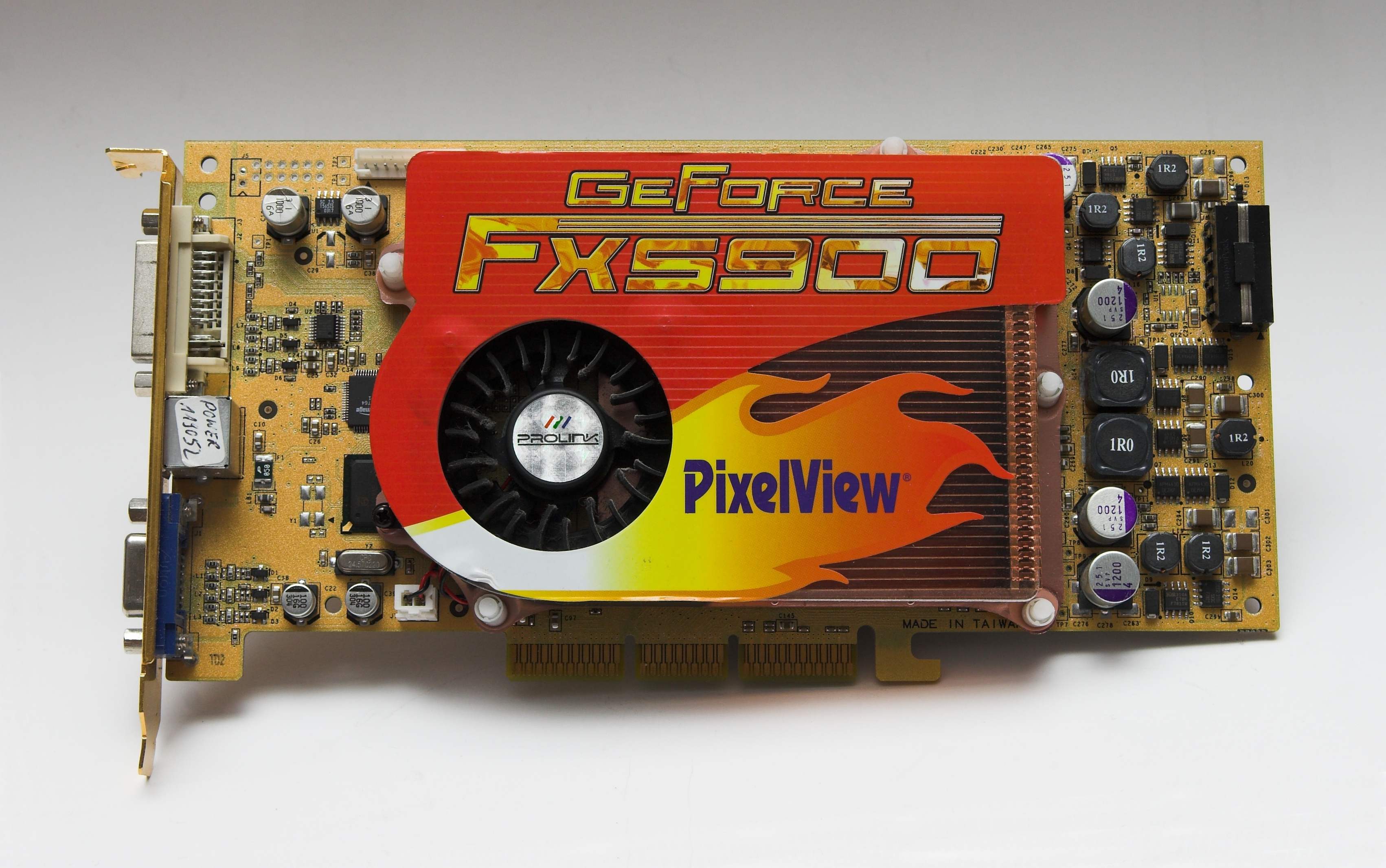 PixelView NVidia GeForce FX5900 AGP graphics card